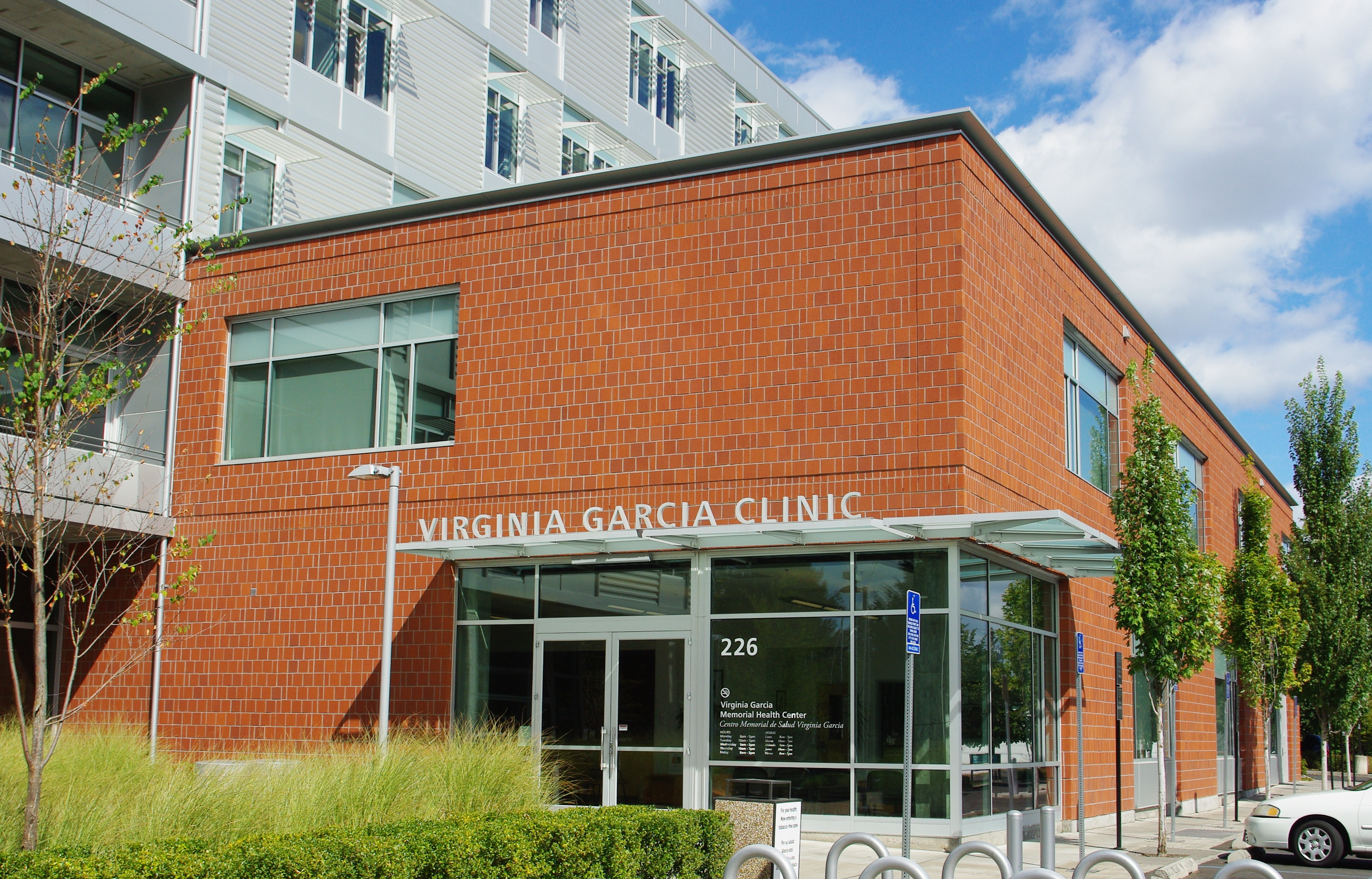 Virginia Garcia Clinic at the Pacific University Health Professions Campus in Hillsboro, Oregon.